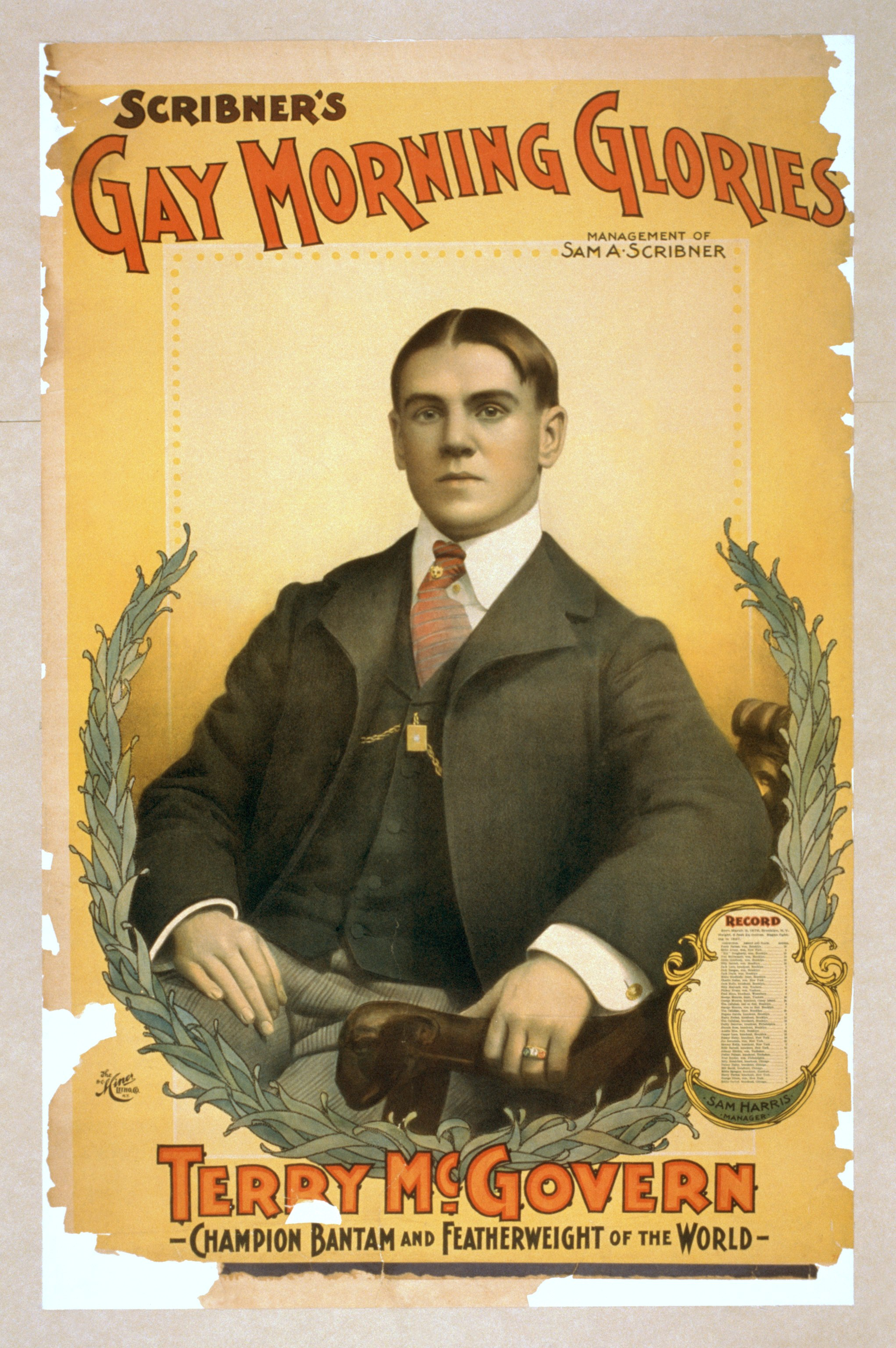 Title: Scribner's Gay Morning Glories Abstract: 1 print : color lithograph ; sheet 107 x 69 cm. (poster format)